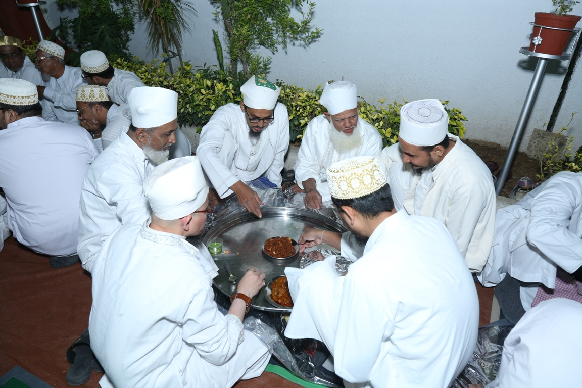 People sitting together in a thaa-Maa'edah